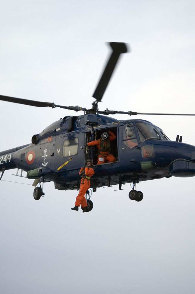 Danish navy Westland Lynx hoisting personel.